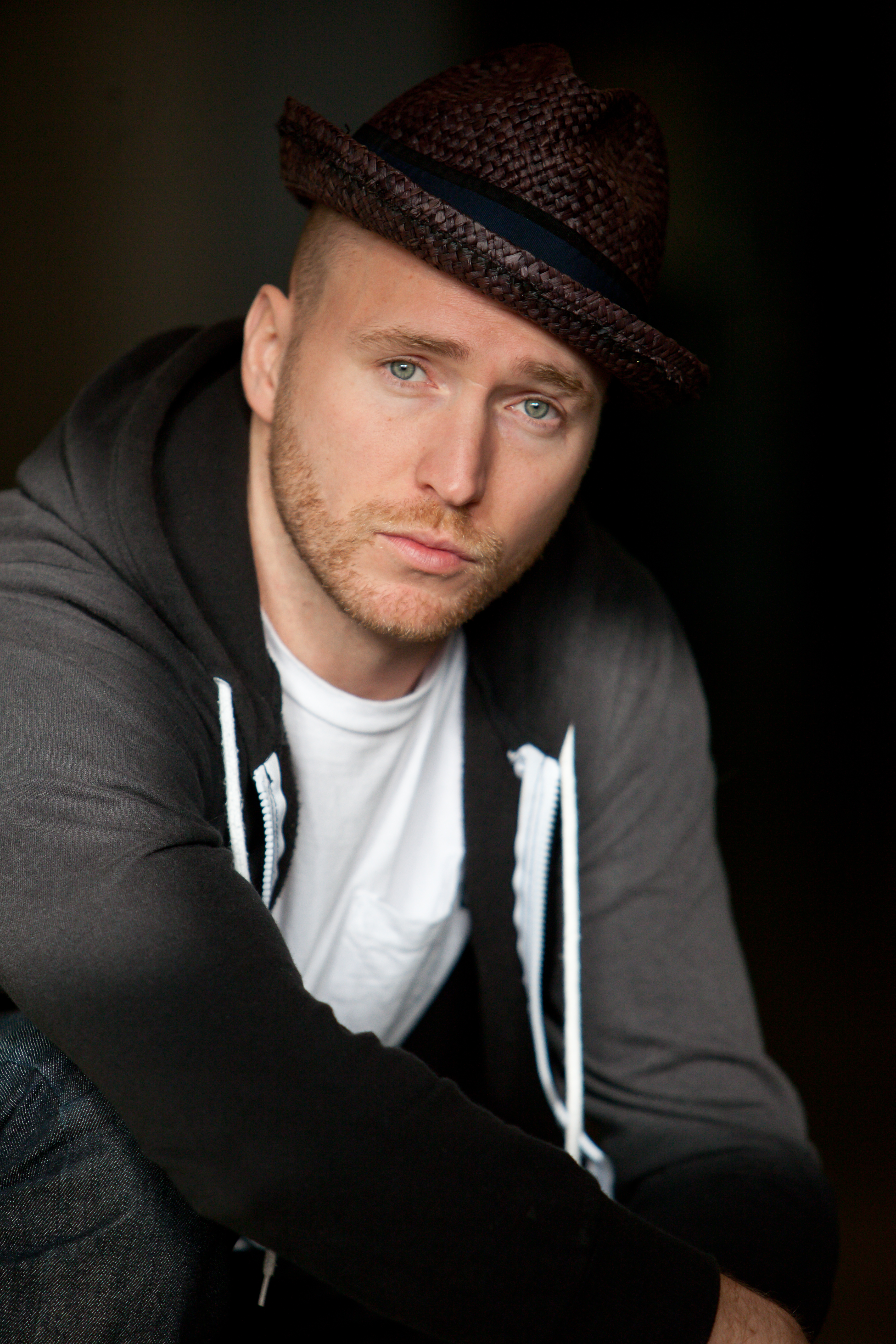 photo by Kris Krüg